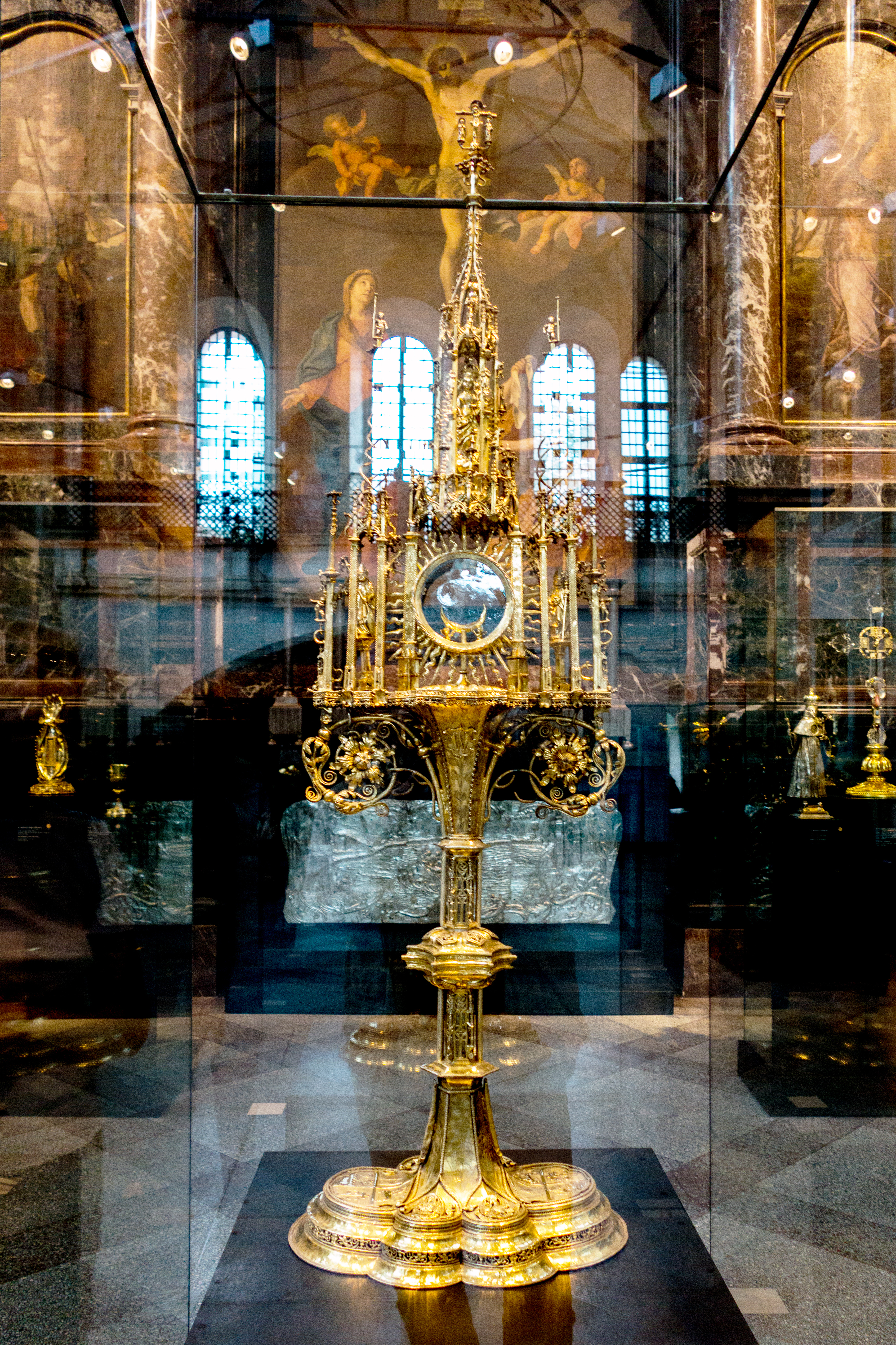 The Great monstrance, Church Heritage Museum in Vilnius. Vilnius - 1535. This remarkably sized monstrance was bequeathed to the Church of St. Michael in Geranainiai by the most powerful nobleman of that time, the Chancellor of the Grand Duchy of Lithuania and the Palatine of Vilnius, the Count of Geranainiai Albertas Goštautas († 1539).